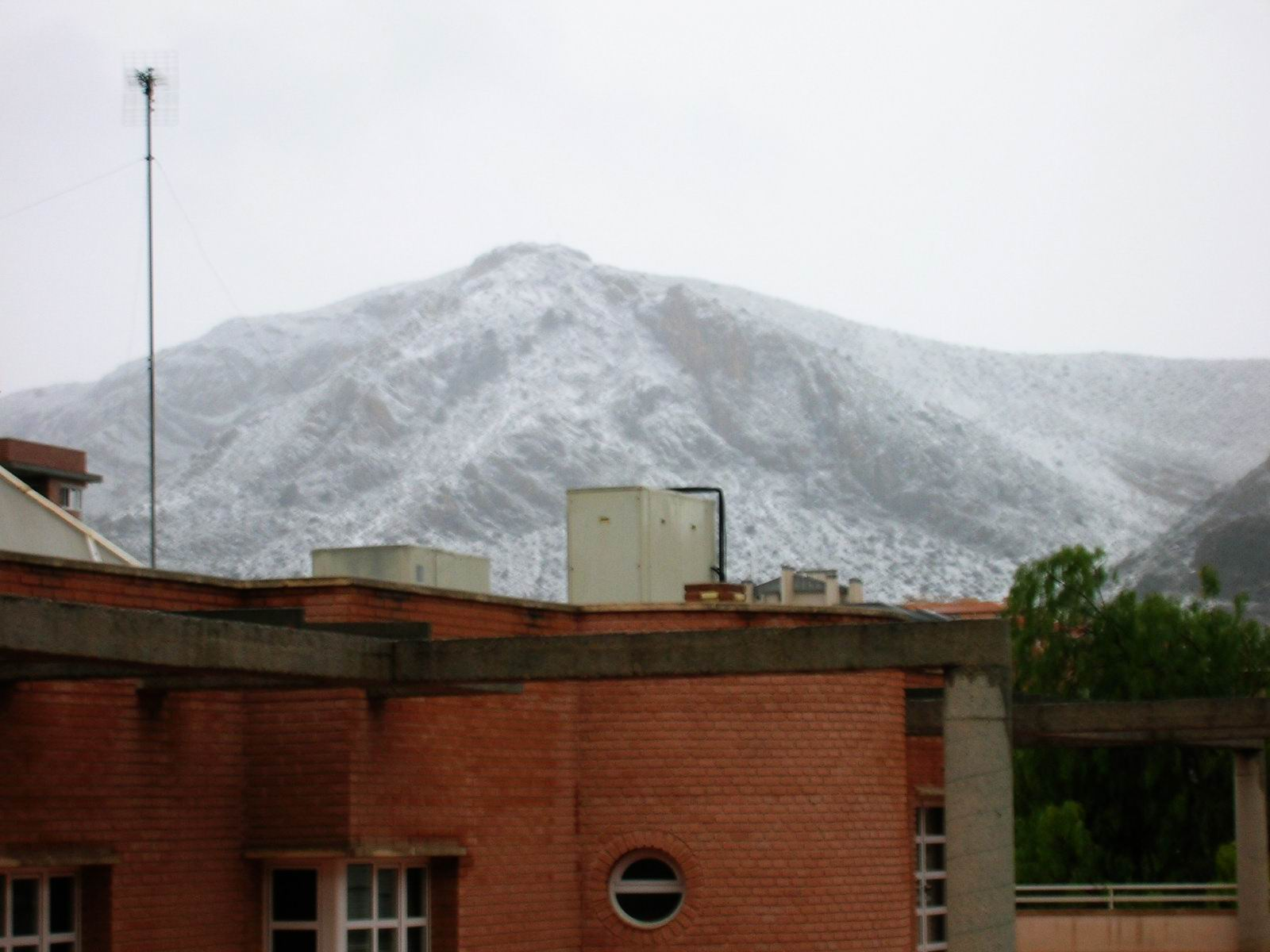 Monte Bolón con nieve. Elda.